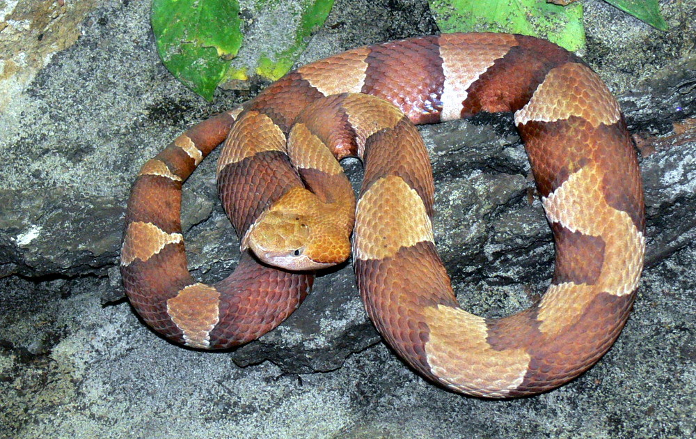 Agkistrodon contortrix mokeson taken at the Tierpark Berlin, Germany